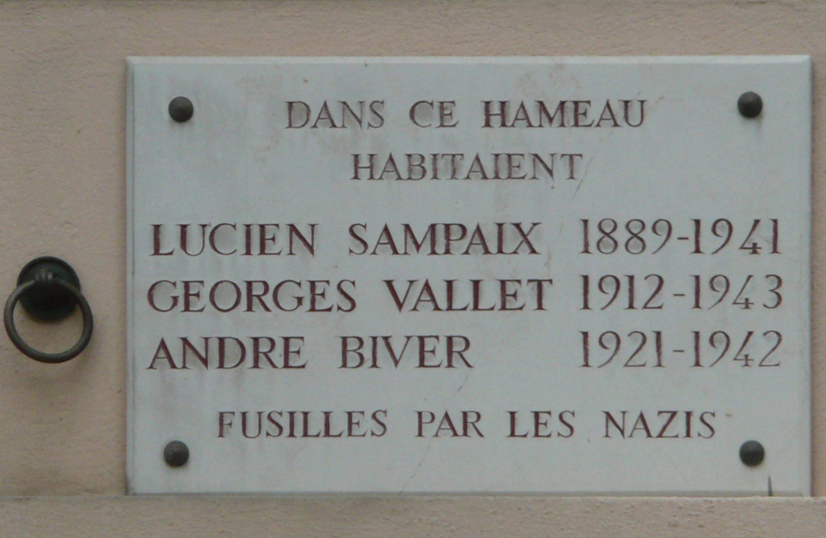 Plaque affixed on the facade of the building located 24 rue des Bois in Paris 19th arrondissement (at the corner of streets rue des Bois et Émile Devaux). The 2 streets Émile Devaux and Paul-de-Koch delinaete the hamlet inhabited by Lucien Sampaix, Georges Vallet and André Biver, members of the French Resistance during World War II